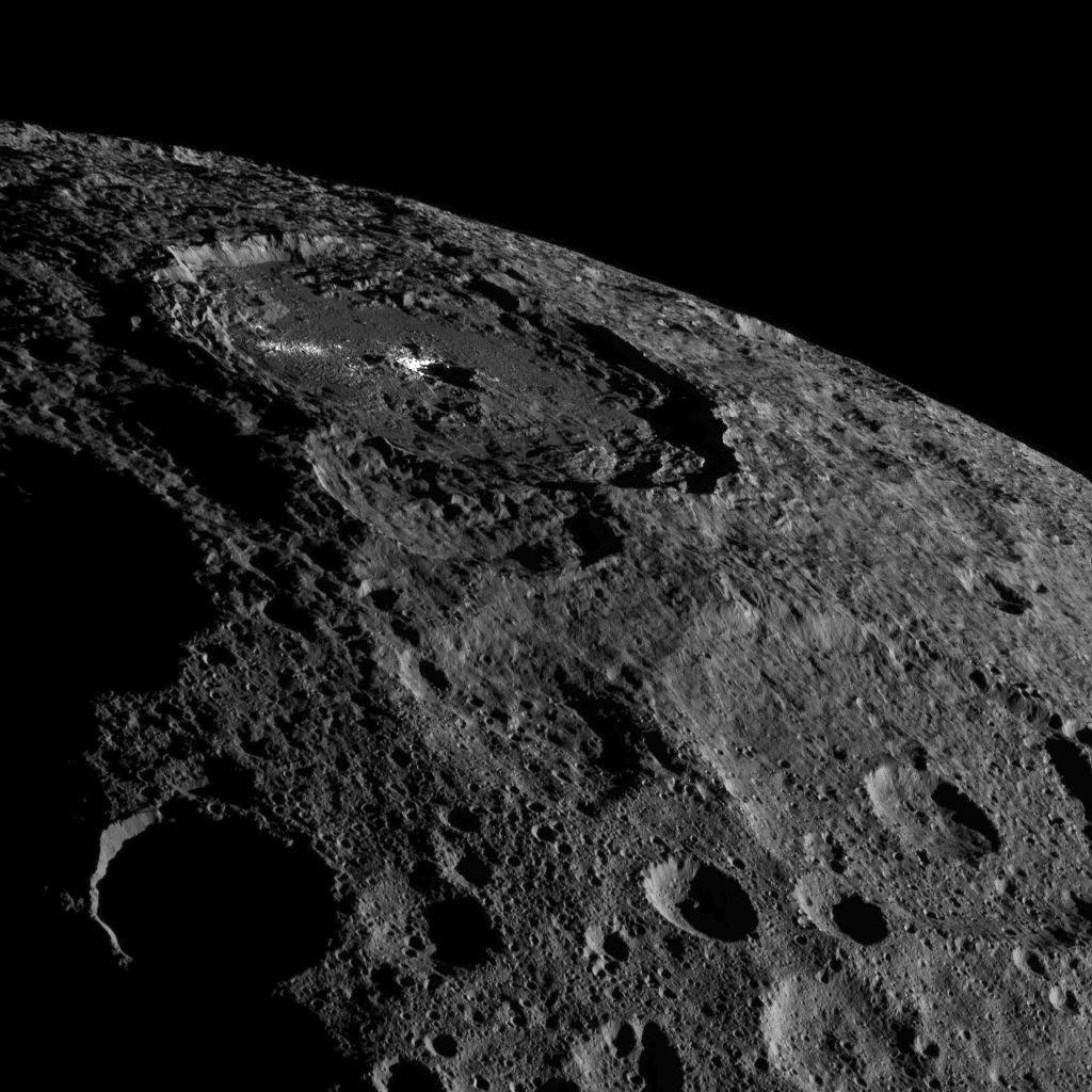 This image of the limb of dwarf planet Ceres shows a section of the northern hemisphere. Prominently featured is Occator Crater, home of Ceres' intriguing brightest areas. At 57 miles (92 kilometers) wide and 2.5 miles (4 kilometers) deep, Occator displays evidence of recent geologic activity. The latest research suggests that the bright material in this crater is comprised of salts left behind after a briny liquid emerged from below, froze and then sublimated, meaning it turned from ice into vapor. Dawn took this image on Oct. 17 from its second extended-mission science orbit (XMO2), at a distance of about 920 miles (1,480 kilometers) above the surface. The image resolution is about 460 feet (140 meters) per pixel. Dawn's mission is managed by JPL for NASA's Science Mission Directorate in Washington. Dawn is a project of the directorate's Discovery Program, managed by NASA's Marshall Space Flight Center in Huntsville, Alabama. UCLA is responsible for overall Dawn mission science. Orbital ATK, Inc., in Dulles, Virginia, designed and built the spacecraft. The German Aerospace Center, the Max Planck Institute for Solar System Research, the Italian Space Agency and the Italian National Astrophysical Institute are international partners on the mission team. For a complete list of mission participants, For more information about the Dawn mission, visit